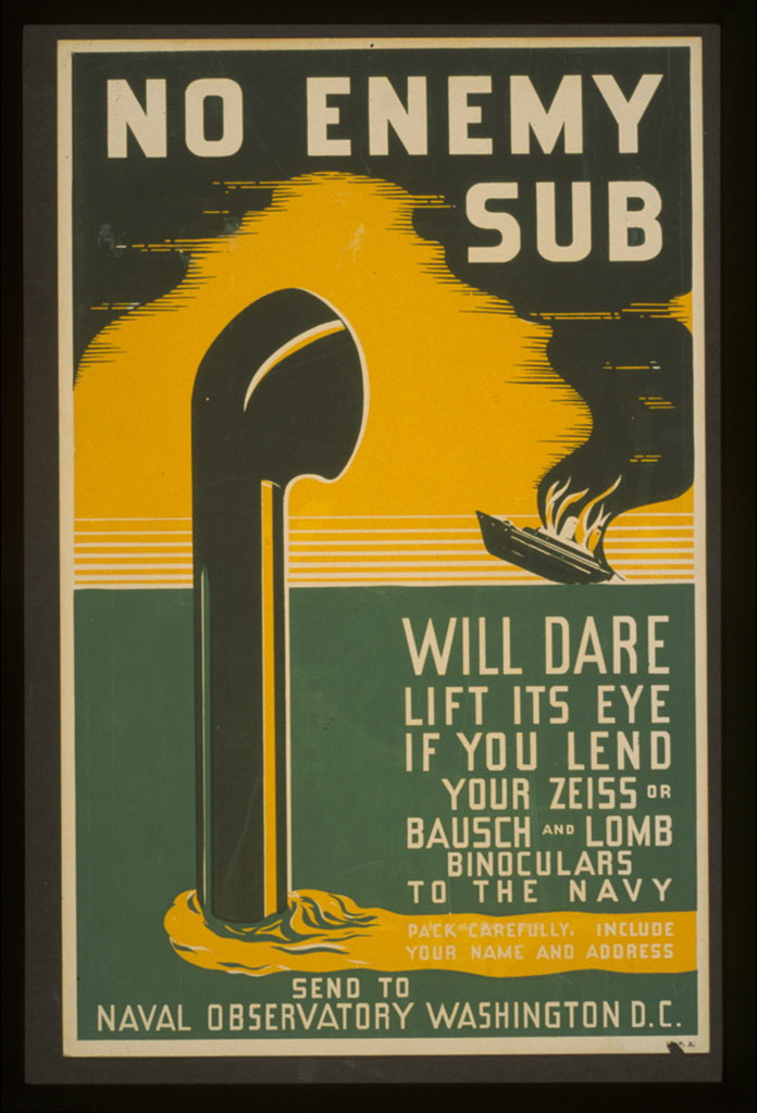 TITLE: No enemy sub will dare lift its eye if you lend your Zeiss or Bausch & Lomb binoculars to the Navy pack carefully, include your name and address : send to Naval Observatory Washington D.C.